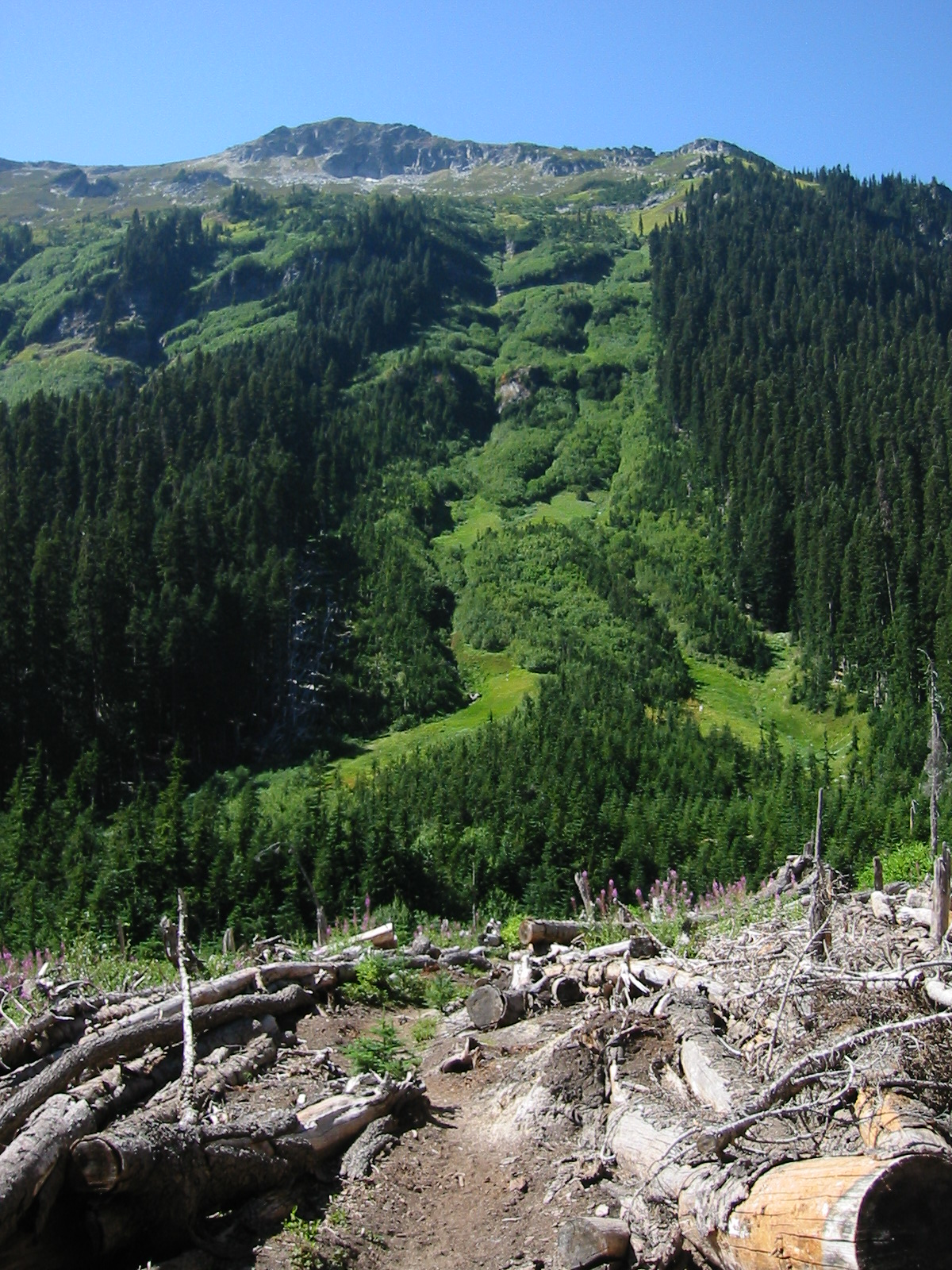 Avalanche chute from Pt. 7276 feet with woody debris in foreground